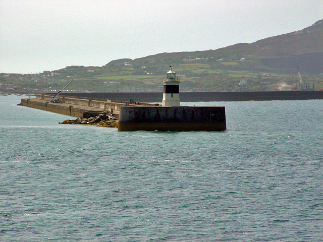 Lighthouse and Breakwater, Holyhead Harbour This view is seen from the Holyhead Dublin ferry looking southwest.